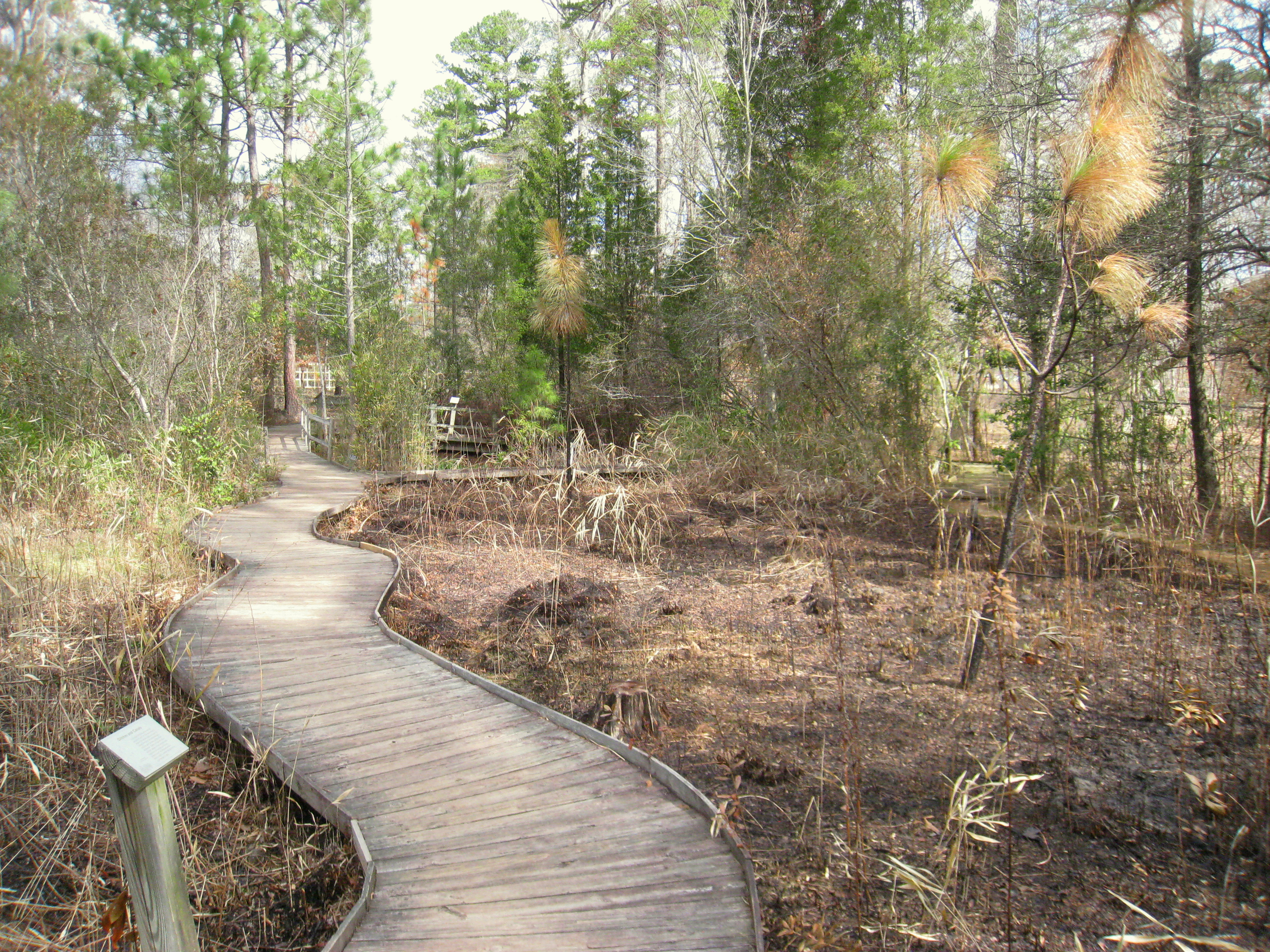 Boardwalk path through the 'Coastal Plain and Sandhills Habitat Gardens,' at the North Carolina Botanical Garden. The Coast Plain habitat section and fire ecology example, shown after burned one month before to simulate the natural fires cycle of rejuvenation. Located in Chapel Hill, North Carolina.